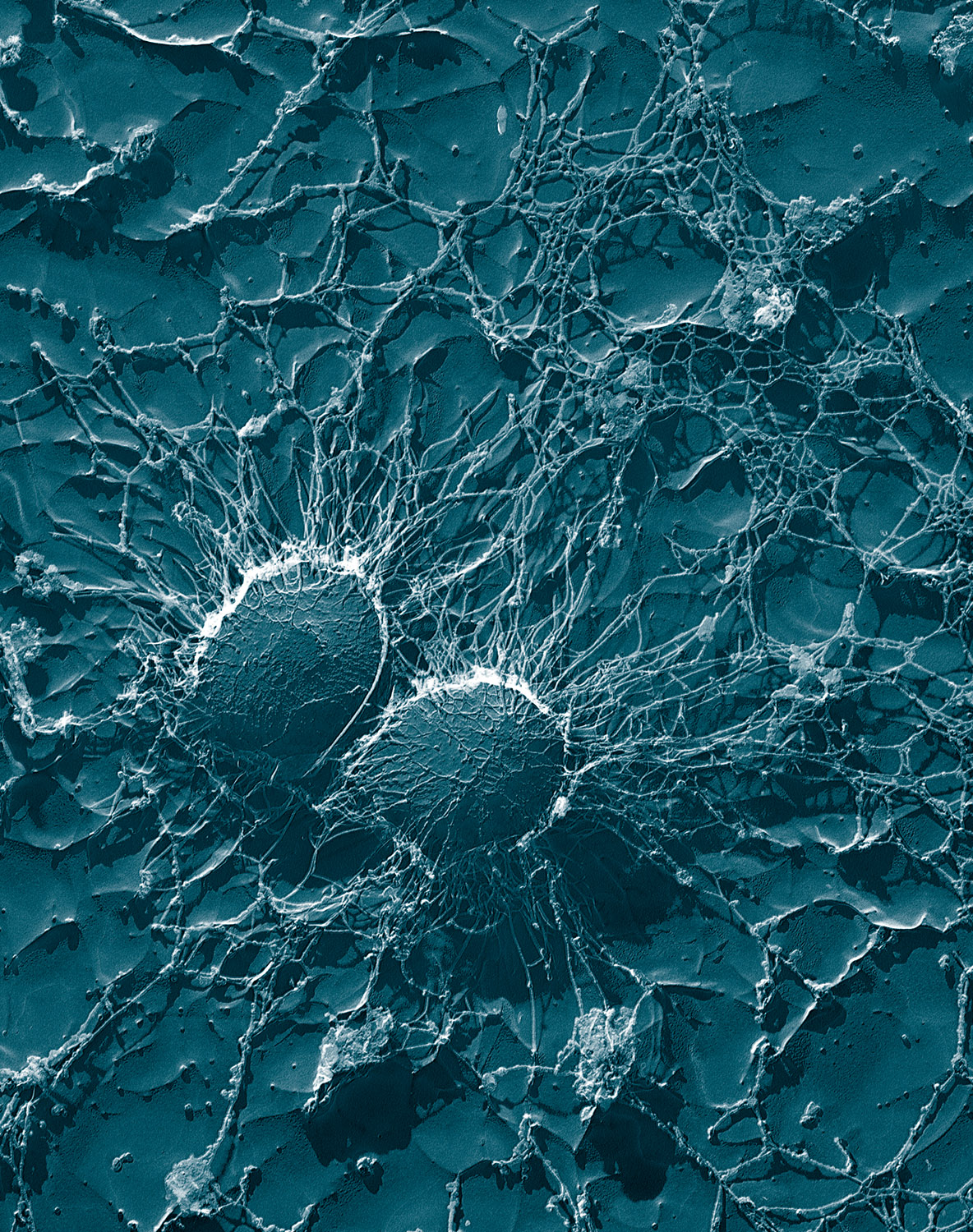 Bacterial cells of Staphylococcus aureus, which is one of the causal agents of mastitis in dairy cows. Its large capsule protects the organism from attack by the cow's immunological defenses. This image was taken at 50,000X magnification on a Transmission Electron Microscope of a heavy-metal coated replica of a freeze dried sample, (TEM) Plate #.9514. Sourced from Plate #.9513's information.